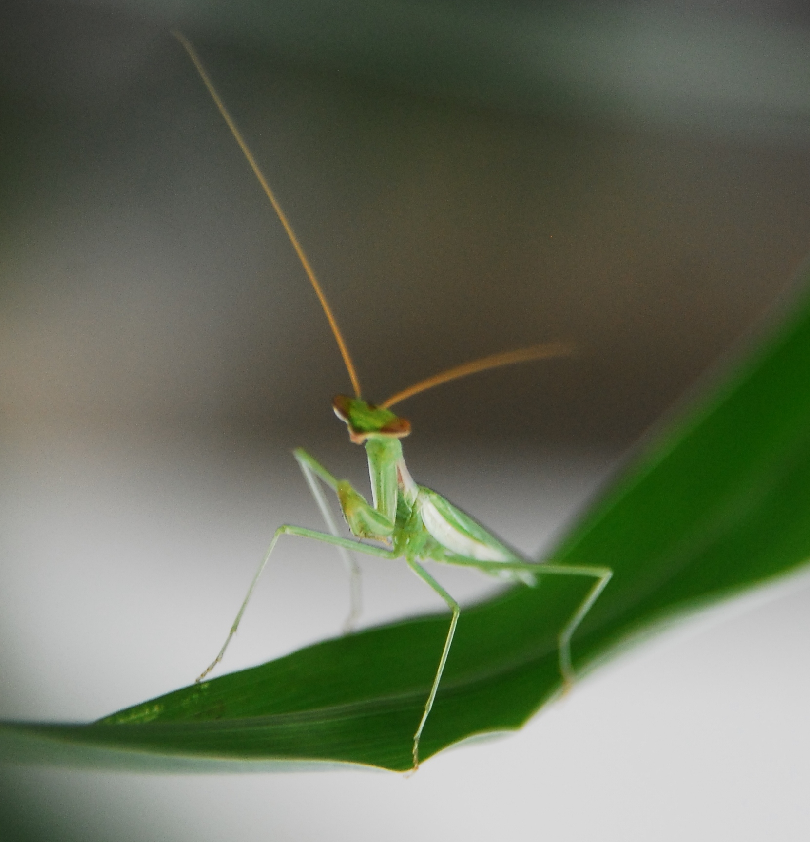 Wildlife and Plants of Israel